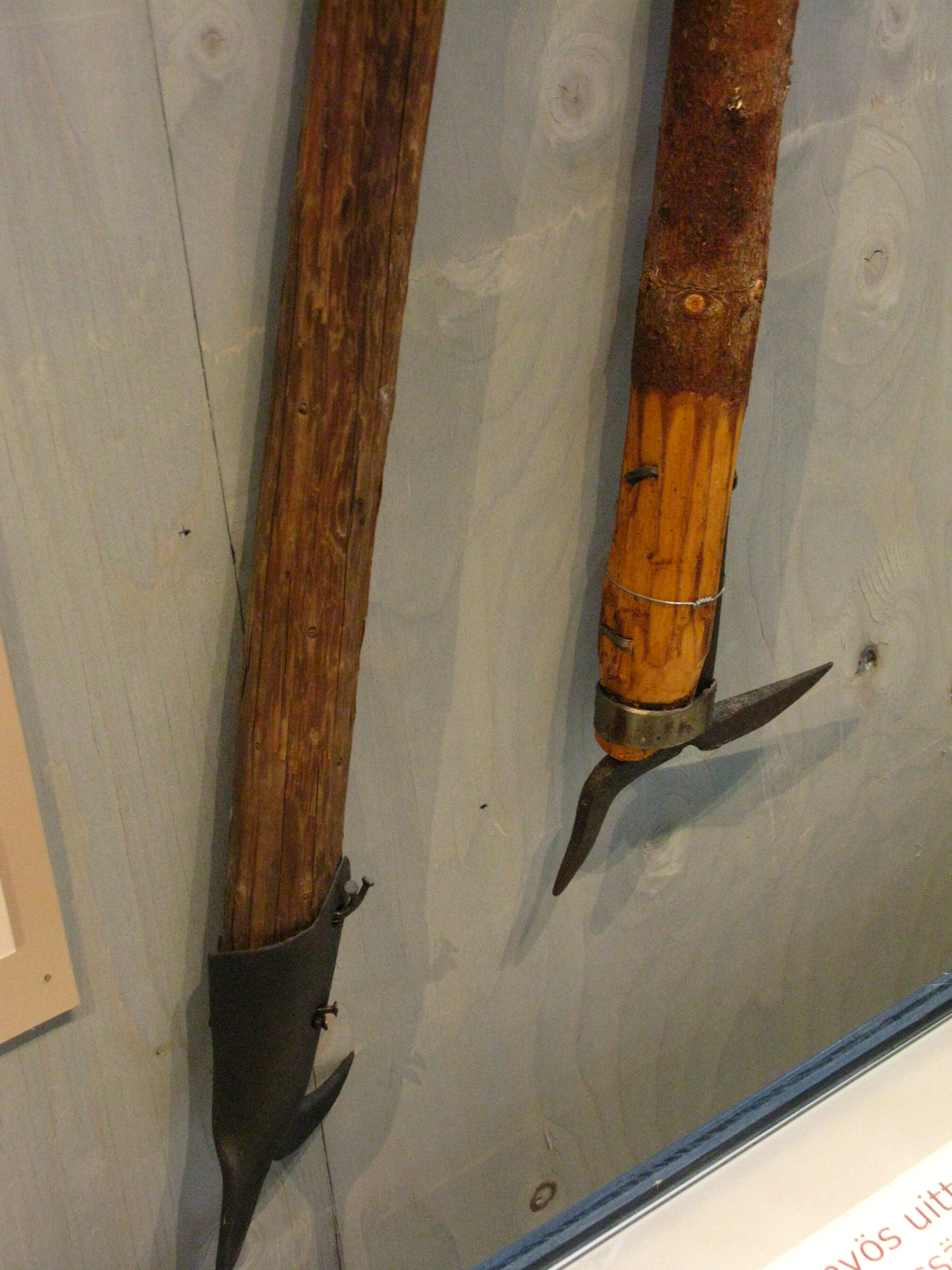 Pike poles used in log floating in Finland, displayed in the forestry museum Lusto in Punkaharju, Finland.